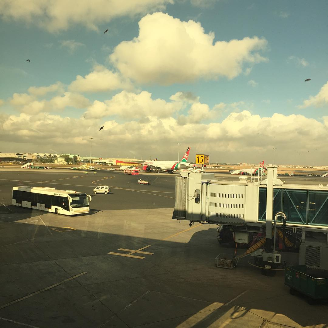 Terminal 1A airside